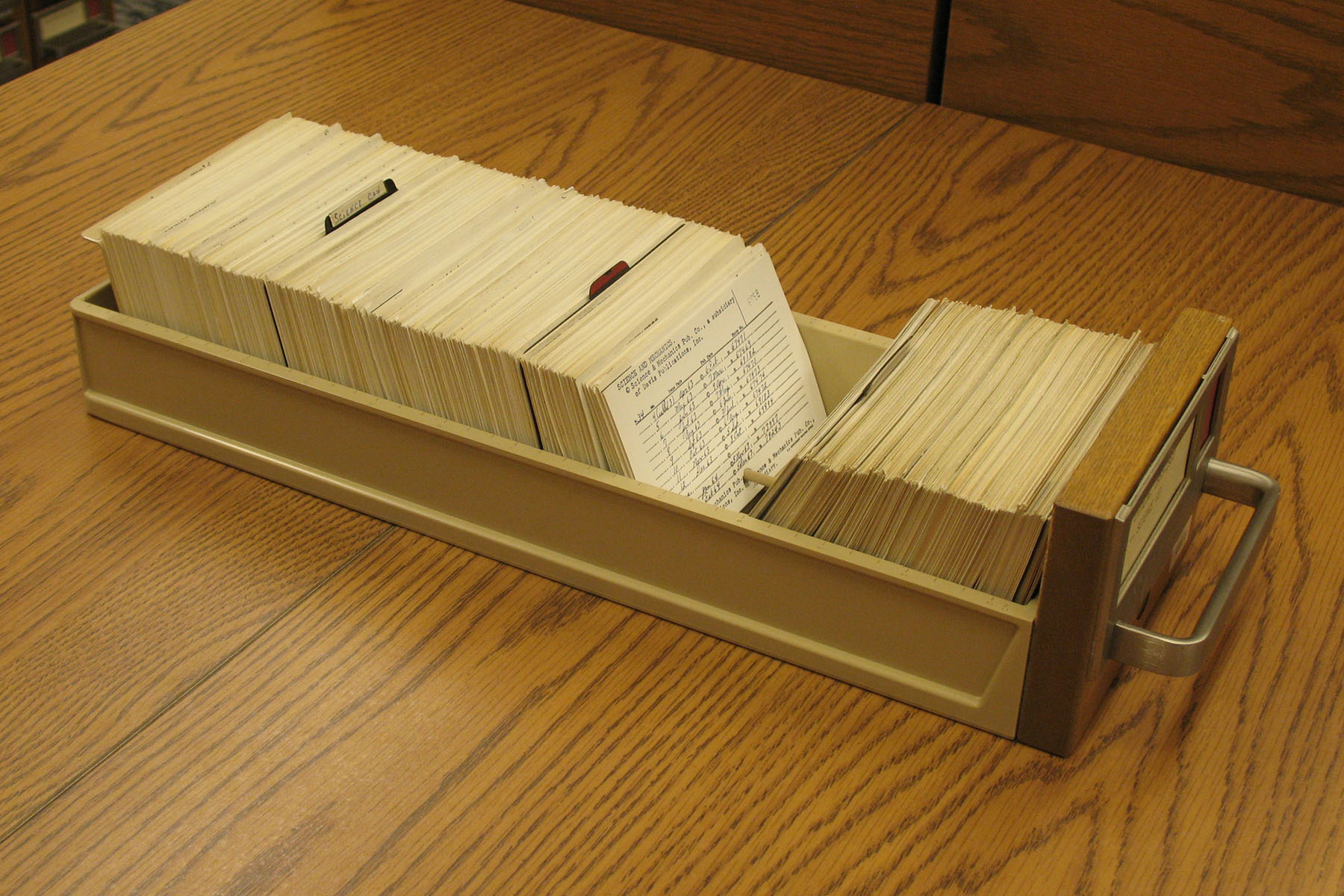 Copyright catalogs at the Library of Congress. Located in room LM-404 of the James Madison Memorial Building, Washington DC. The pre-1978 indexes to the copyright records were manually entered on 3 by 5 inch (76 by 127 mm) cards that were stored in file drawers.